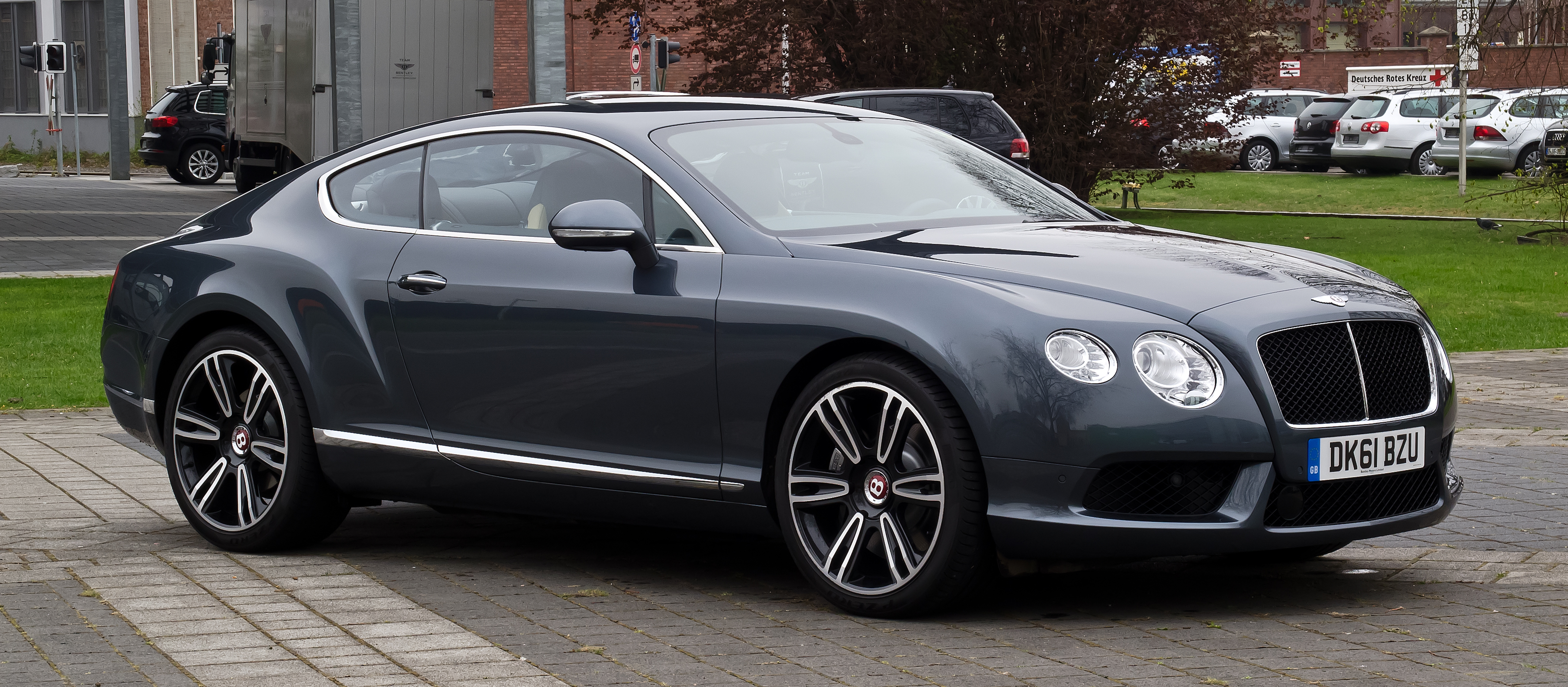 Bentley Continental GT V8 (II)